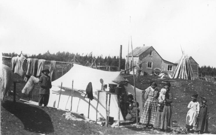 Photograph, Indian group & tent, Mingan, QC, 1920, George R. Lighthall, Silver salts on paper - Gelatin silver process - 5 x 8 cm